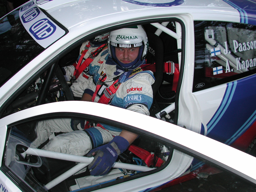 Jani Paasonen at the 2001 Rally Finland, August 2001.